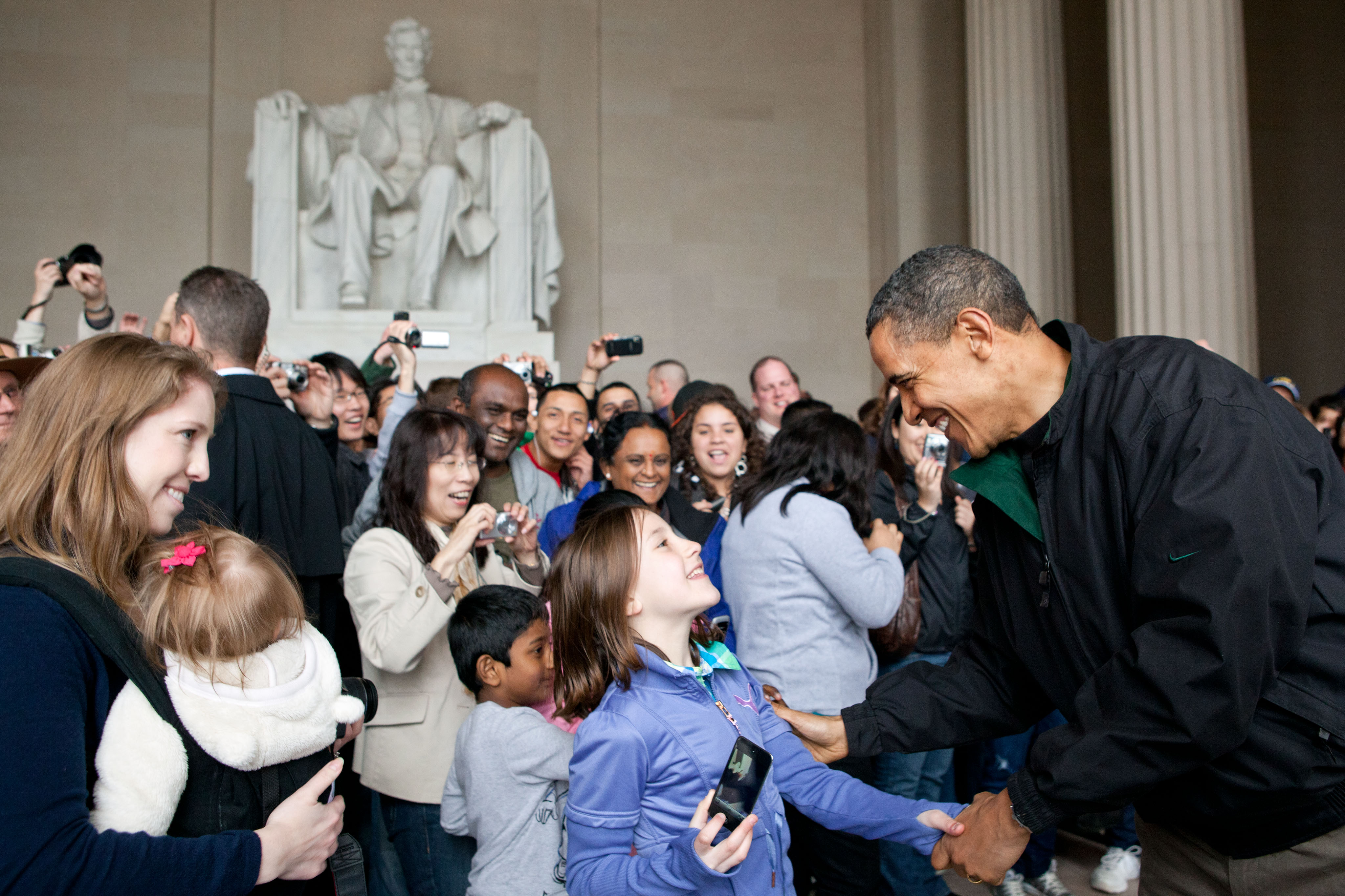 President Barack Obama greets tourists at the Lincoln Memorial in Washington, D.C., Saturday, April 9, 2011. The President made an unannounced stop to thank people for visiting the memorial a day after he and Congressional leaders agreed on a bill to keep the government open. (Official White House Photo by Pete Souza)